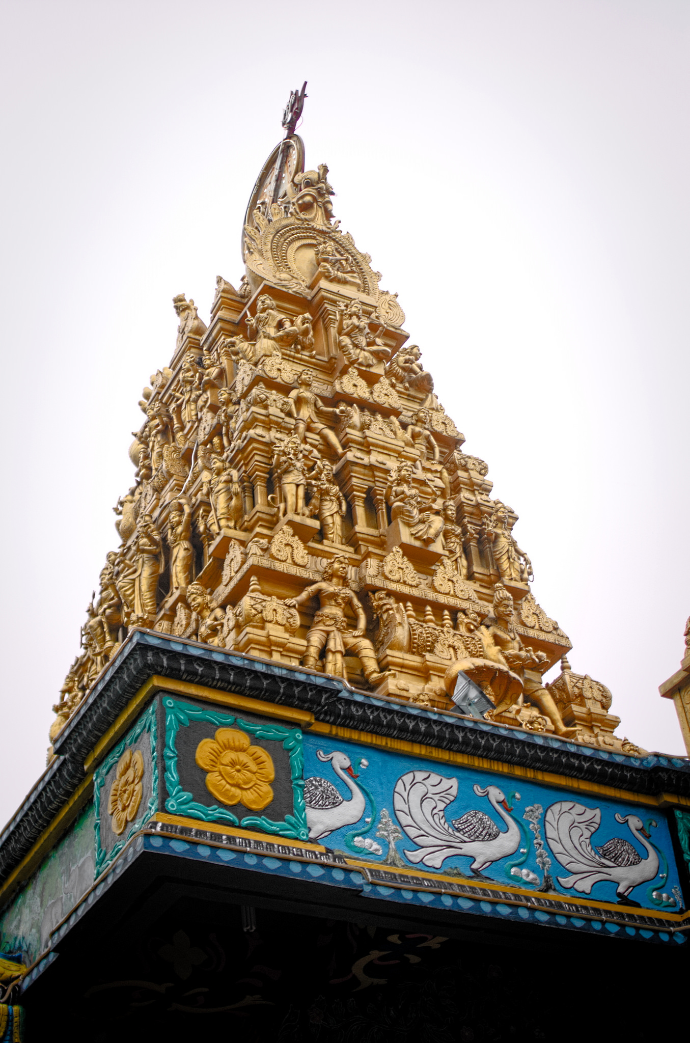 hindu temple in medan